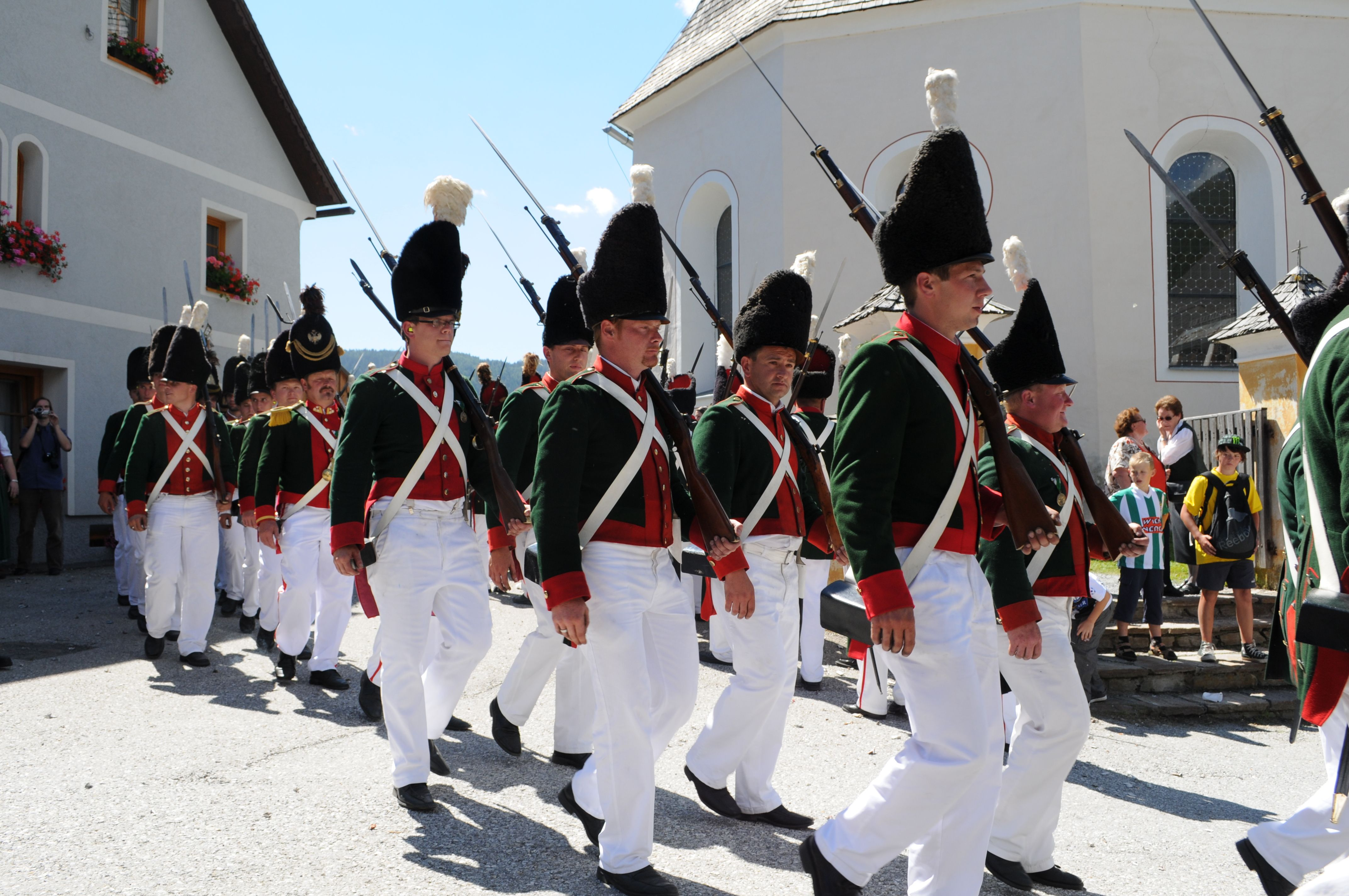 Samson festival Krakaudorf, Styria, Austria